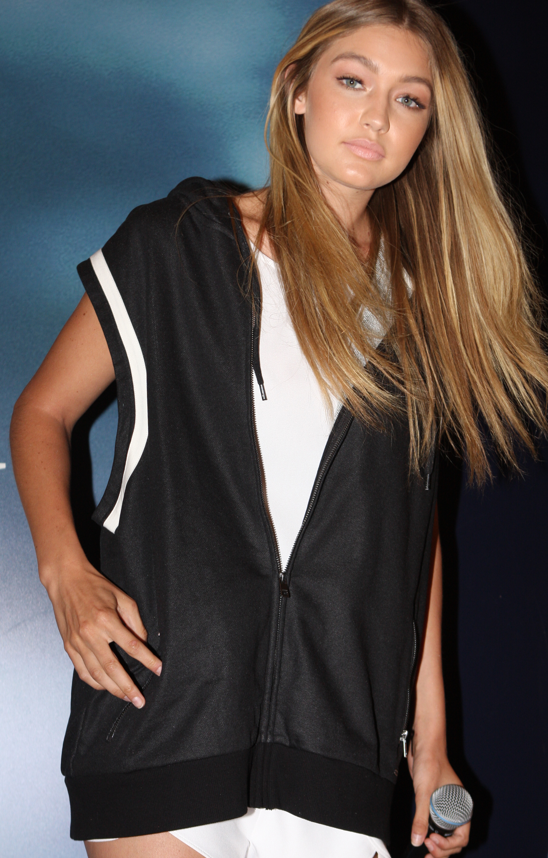 Gigi Hadid in Sydney to celebrate the launch of the Guess Spring Launch 2015 Campaign